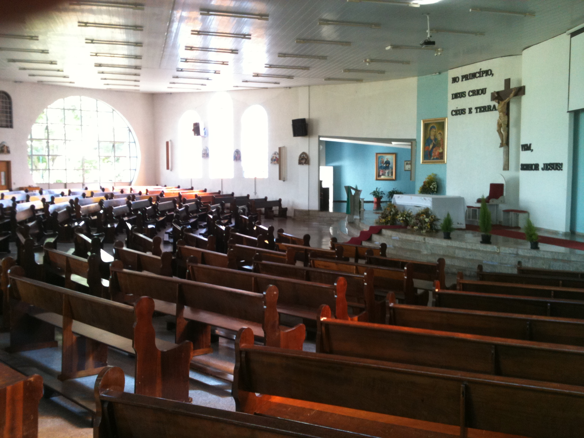 NSConsolata Church interior - Brasília, Brazil